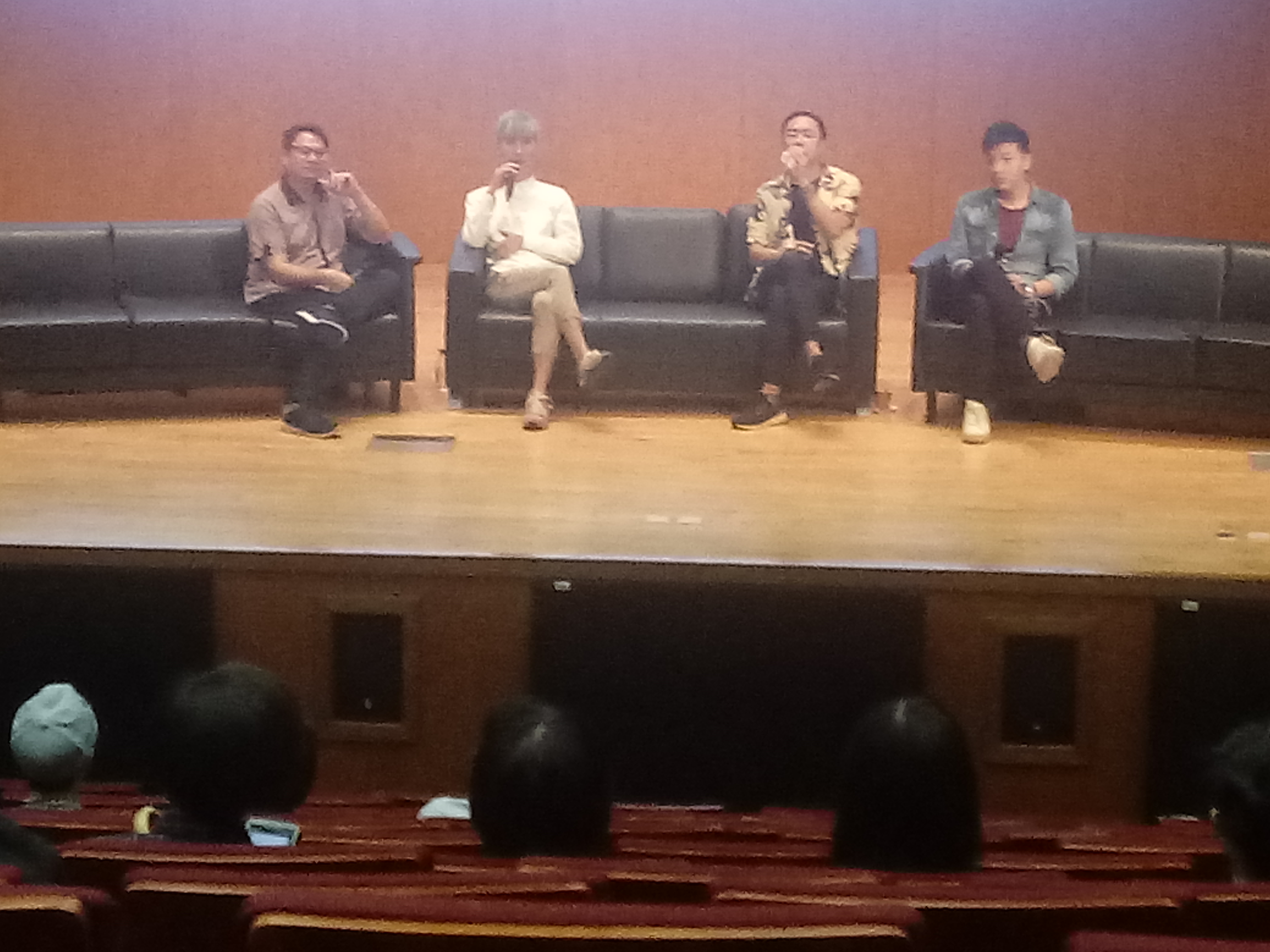 HK hmt 何文田 Ho Man Tin 公大 ouhk 香港公開大學 hkjc 賽馬會大樓 Jockey Club Buiding June 2018 張晨 健吾 林若寧 talk